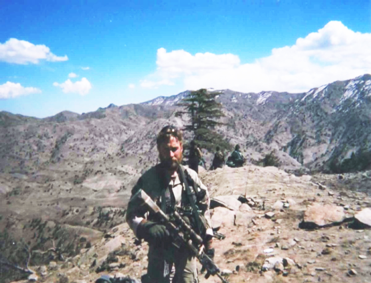 180524-N-N0101-210 WASHINGTON (May 24, 2018) A file photo taken in March 2002 of Senior Chief Special Warfare Operator (SEAL) Britt K. Slabinski on Roberts Ridge. President Donald J. Trump awarded the Medal of Honor to Slabinski during a White House ceremony May 24, 2018 for his heroic actions during the Battle of Takur Ghar in March 2002 while serving in Afghanistan. Slabinski was recognized for his actions while leading a team under heavy effective enemy fire in an attempt to rescue SEAL teammate Petty Officer 1st Class Neil Roberts during Operation Anaconda in 2002. The Medal of Honor is an upgrade of the Navy Cross he was previously awarded for these actions. (U.S. Navy photo/Released)